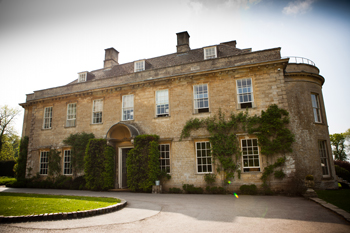 Picture of the main house at Babington House in Somerset